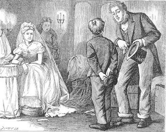 Great Expectations: Pip is ashamed of Joe at Satis House, by F. A. Fraser.